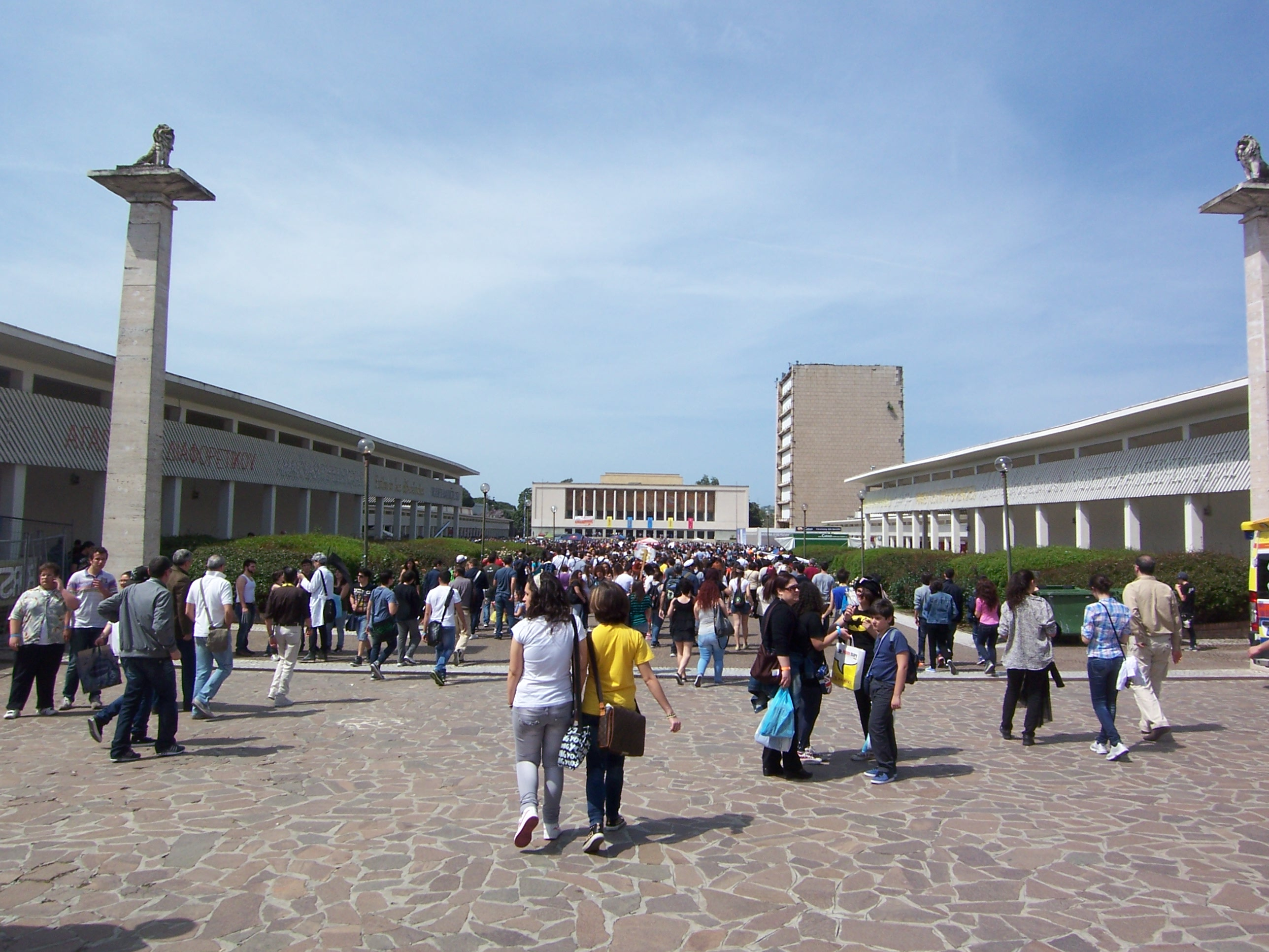 Napoli Comicon 2013 edition- annual comics convention in Naples, Italy